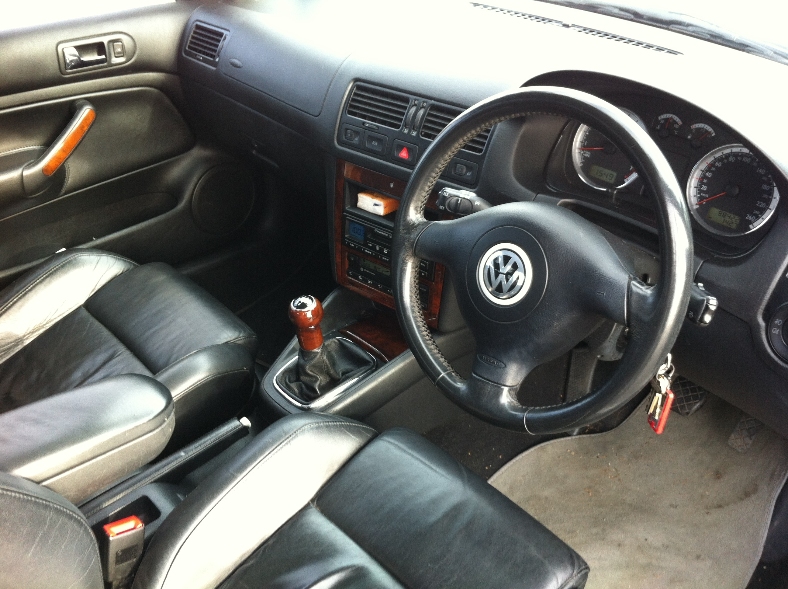 Right side